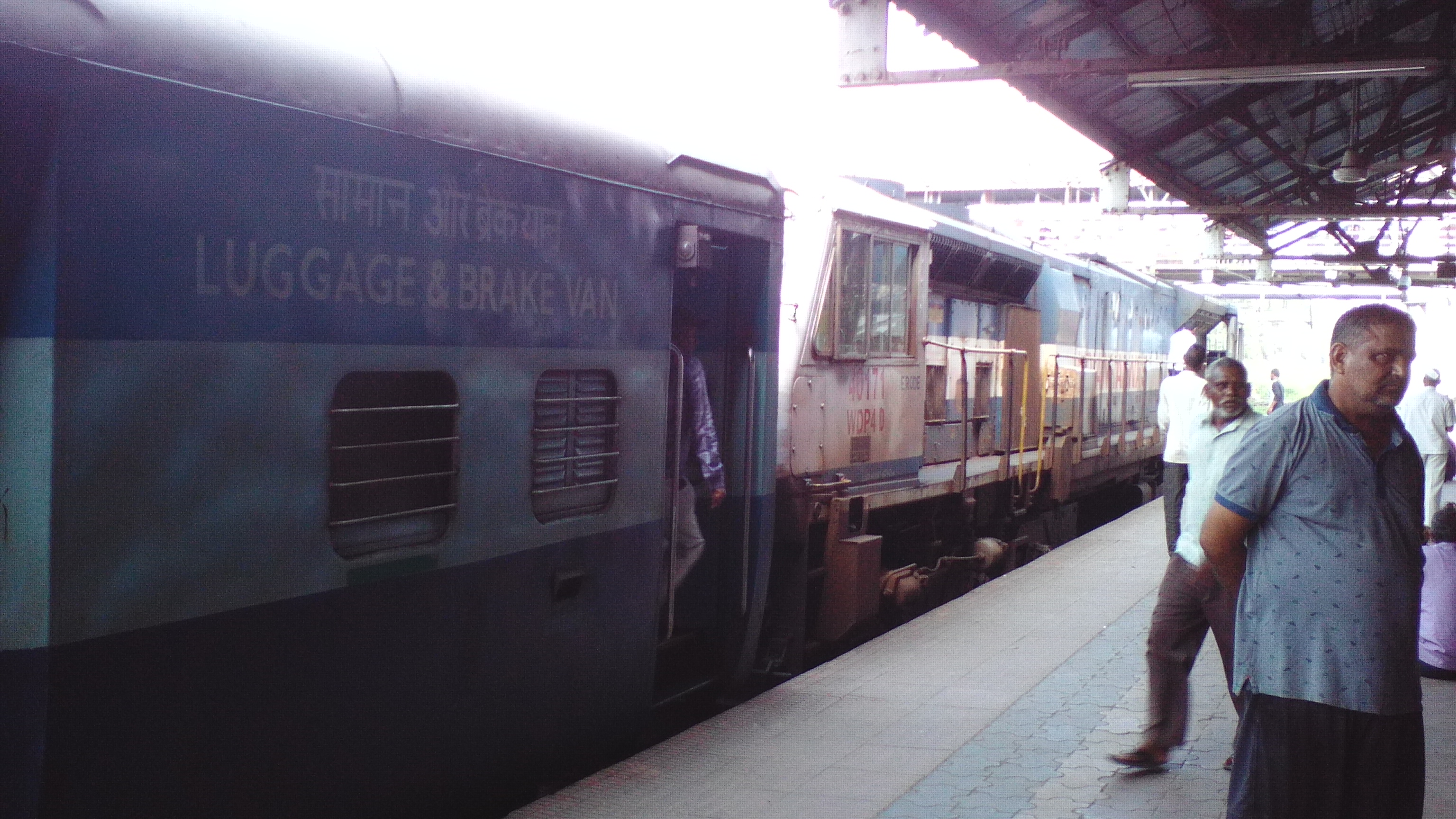 WDP 4 pulls Mangla lakshadweep Express at Kalyan Jn